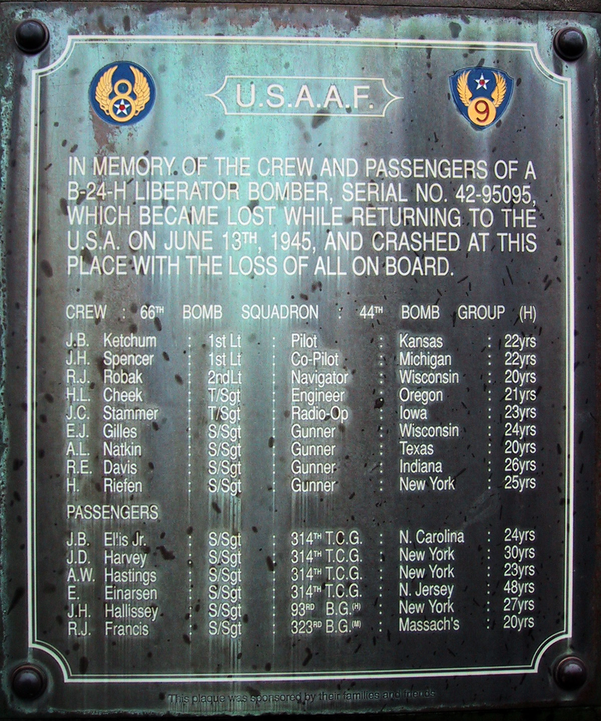 Memorial Plaque erected at the crash site of USAAF Liberator at Fairy Lochs, Scotland